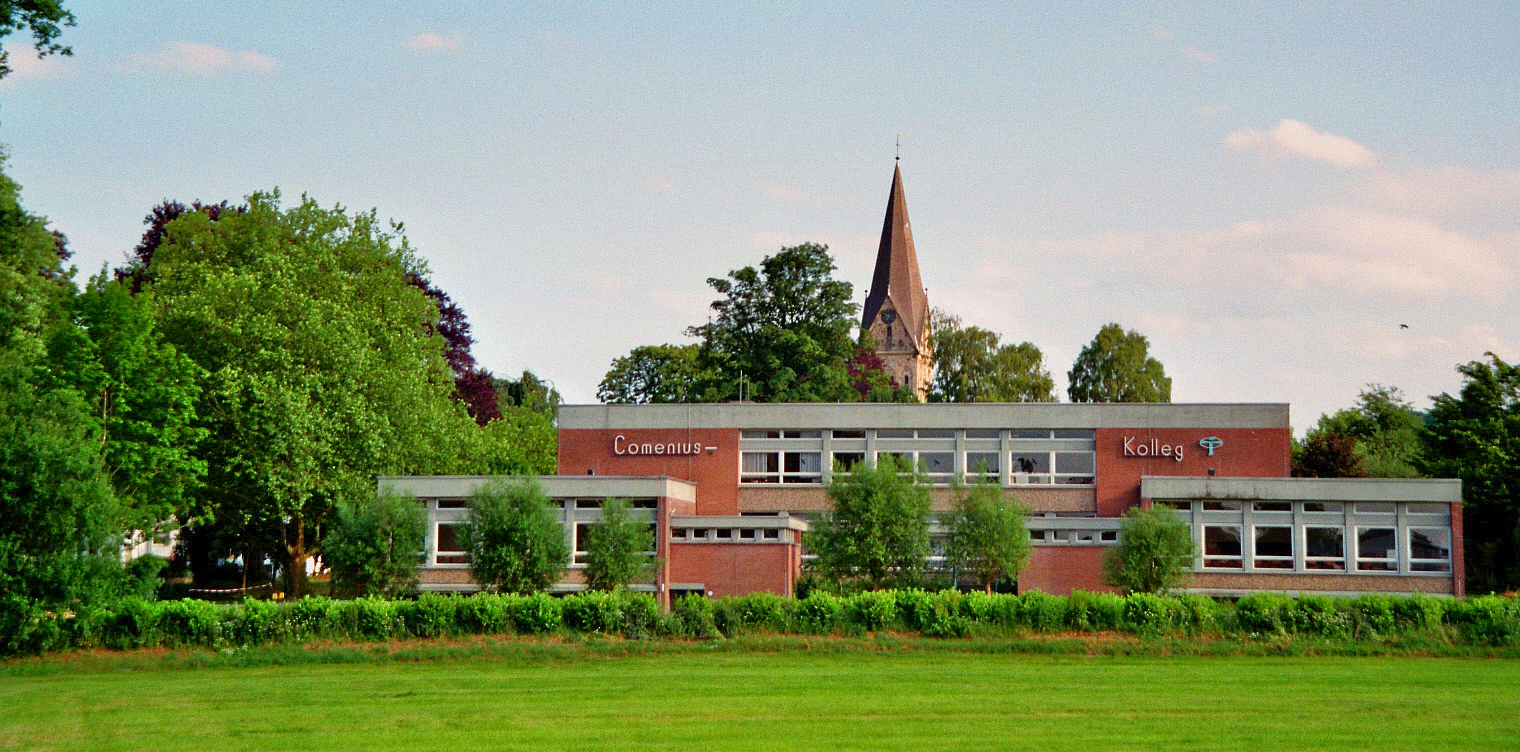 The Comenius-Kolleg in Mettingen, Kreis Steinfurt, North Rhine-Westphalia, Germany.